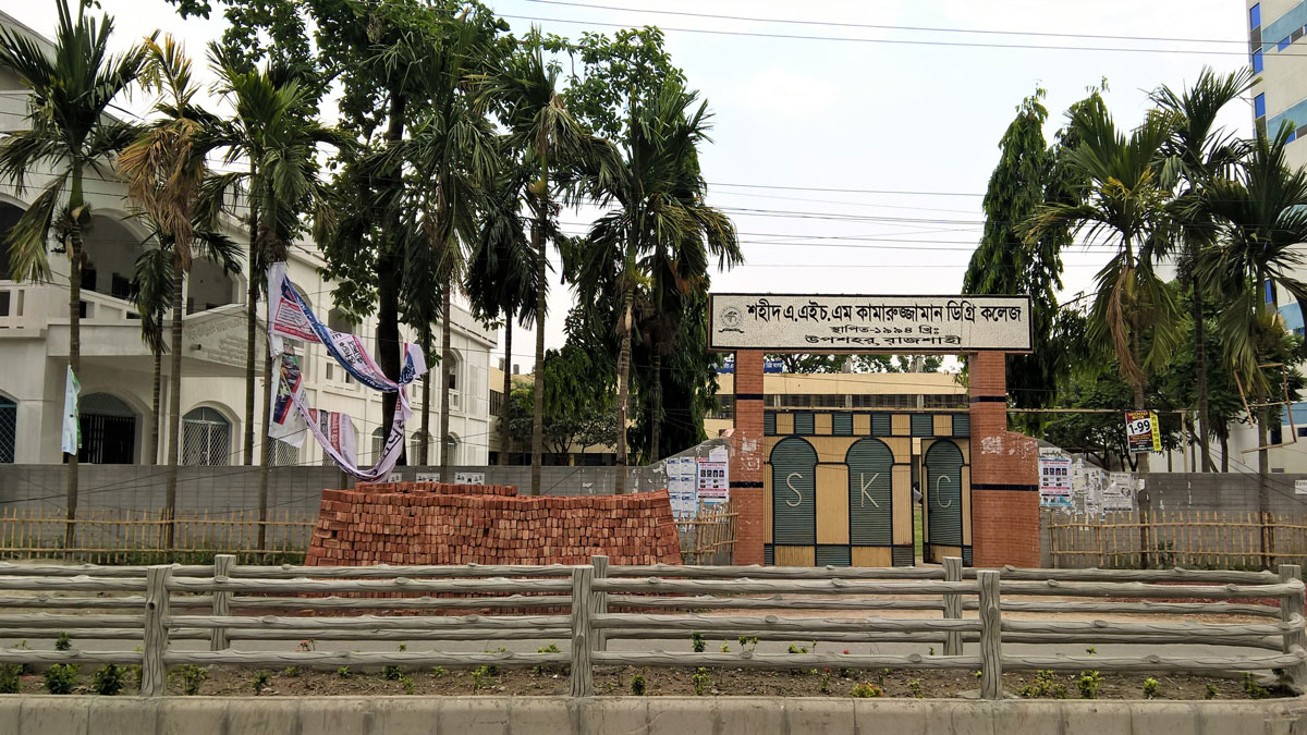 AHM Kamaruzzaman Degree College is one of the government college in Rajshahi City.